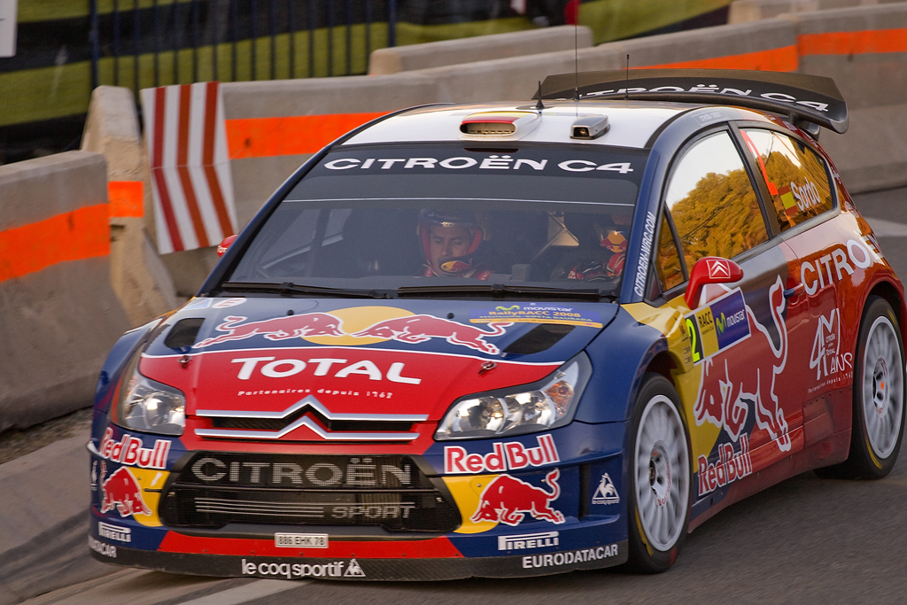 Dani Sordo driving his Citroën C4 WRC at the 2008 Rally Catalunya.